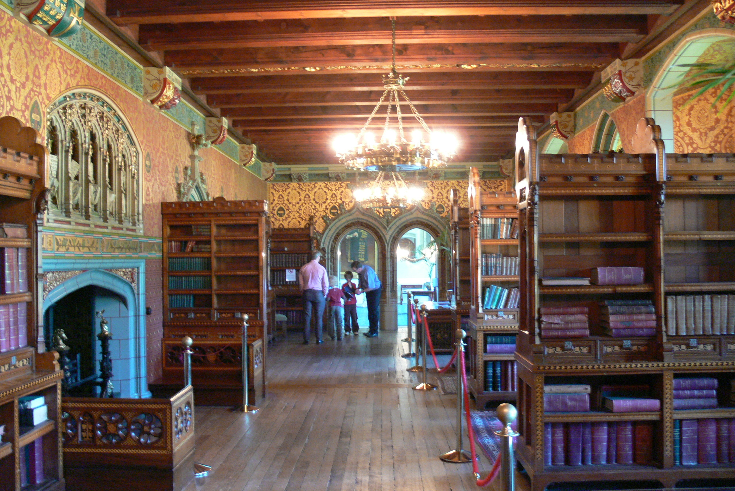 Cardiff Castle ( Wales ). Castle apartments: Library ( 1870s ) - Interior.